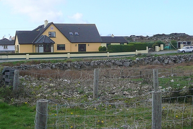 Rós an Mhil (Rossaveel) Apart from the harbour, Rós an Mhil (Rossaveel) is a small community with a few typical houses like this.